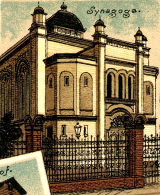 Synagogue in Bojanowo